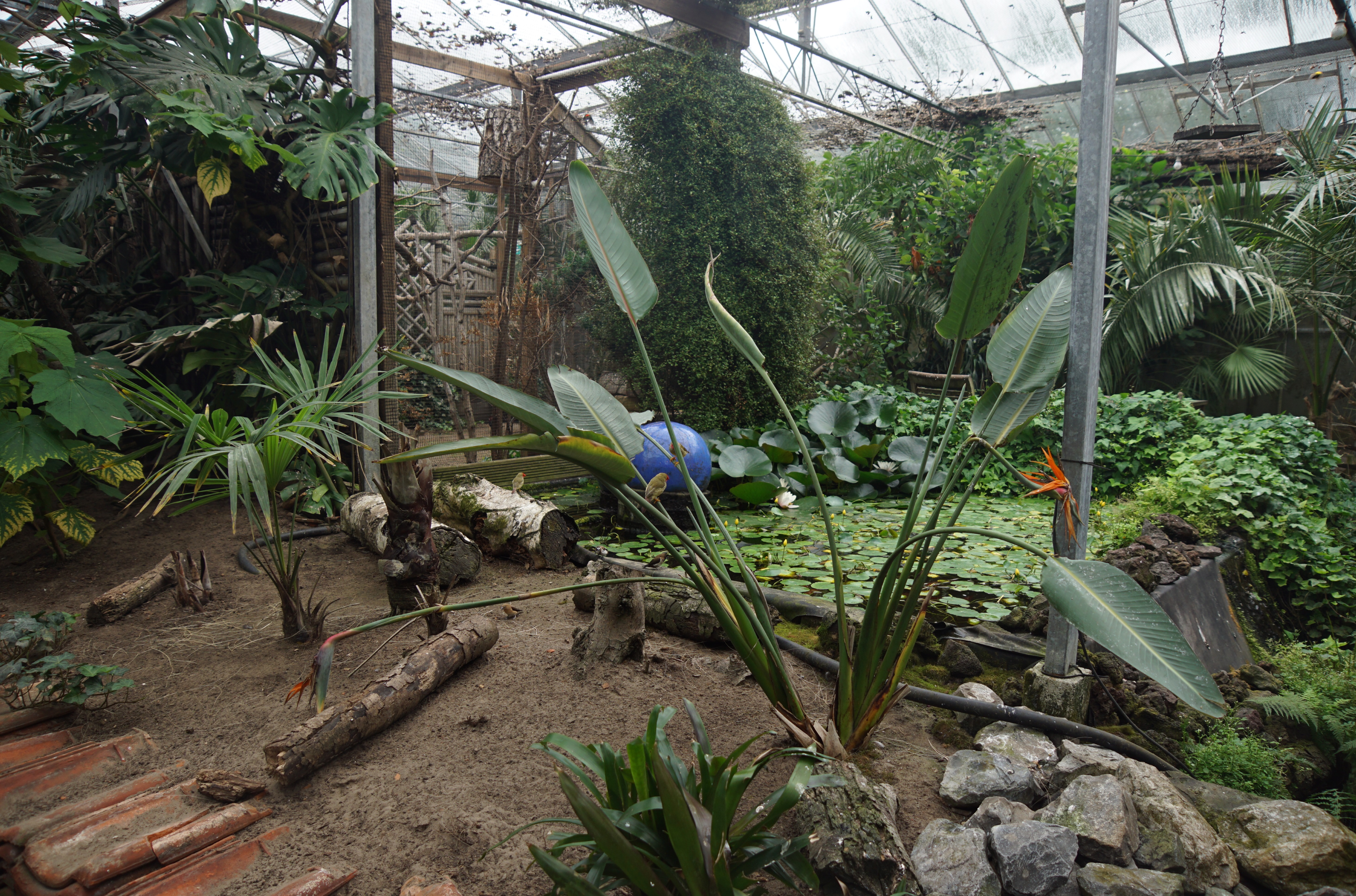 Texel Zoo, Texel, The Netherlands.